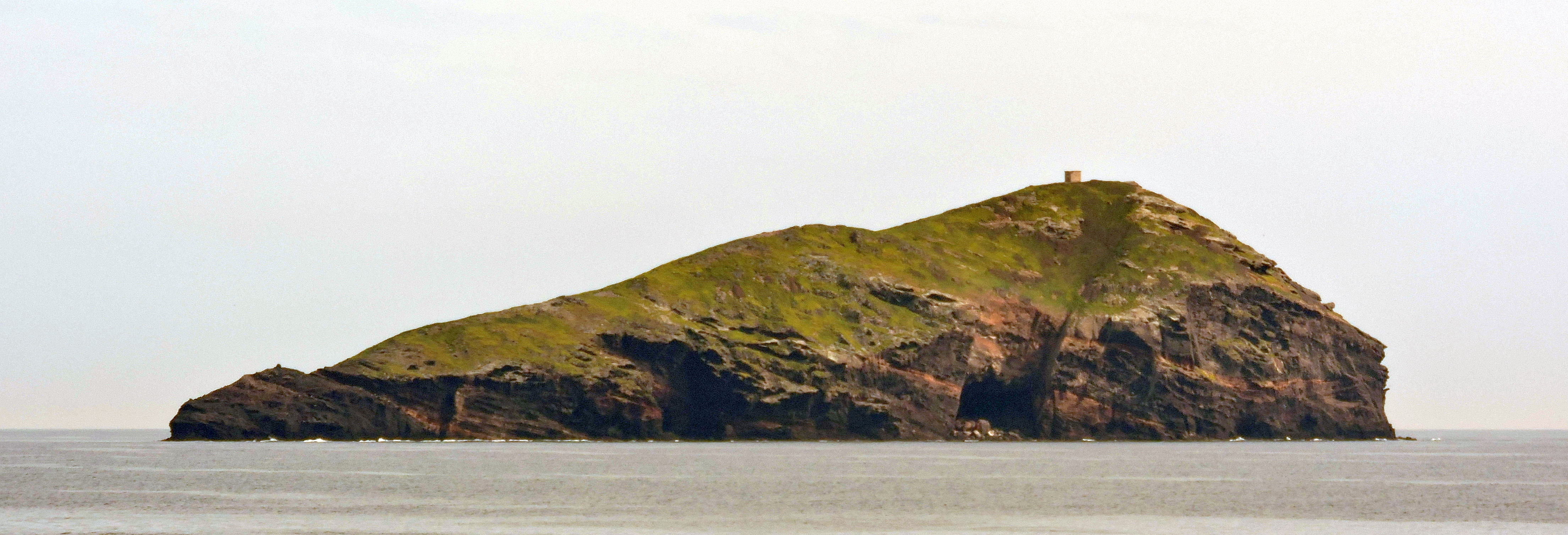 La vacca island (Sardinia) from Capo Sperone beach